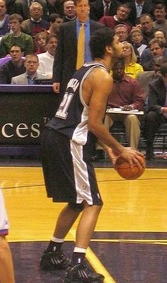 Tim Duncan of the San Antonio Spurs shooting a free throw against the Milwaukee Bucks, Bradley Center, Milwaukee, Wisconsin.